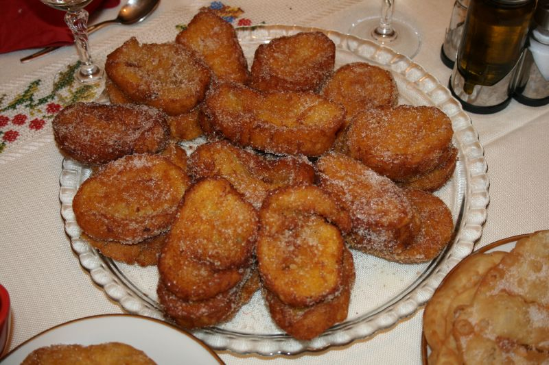 Rabanadas, Christmas cakes